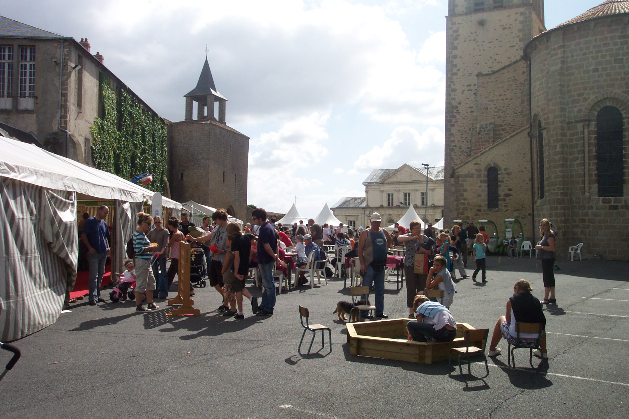 Inside the Citadelle during the Festival Ludique International de Parthenay of 2010 in the French town of Parthenay. Games of skill in front of the Marie and the law courts. For more information, see the Wikipedia articles Parthenay and Festival Ludique International de Parthenay.